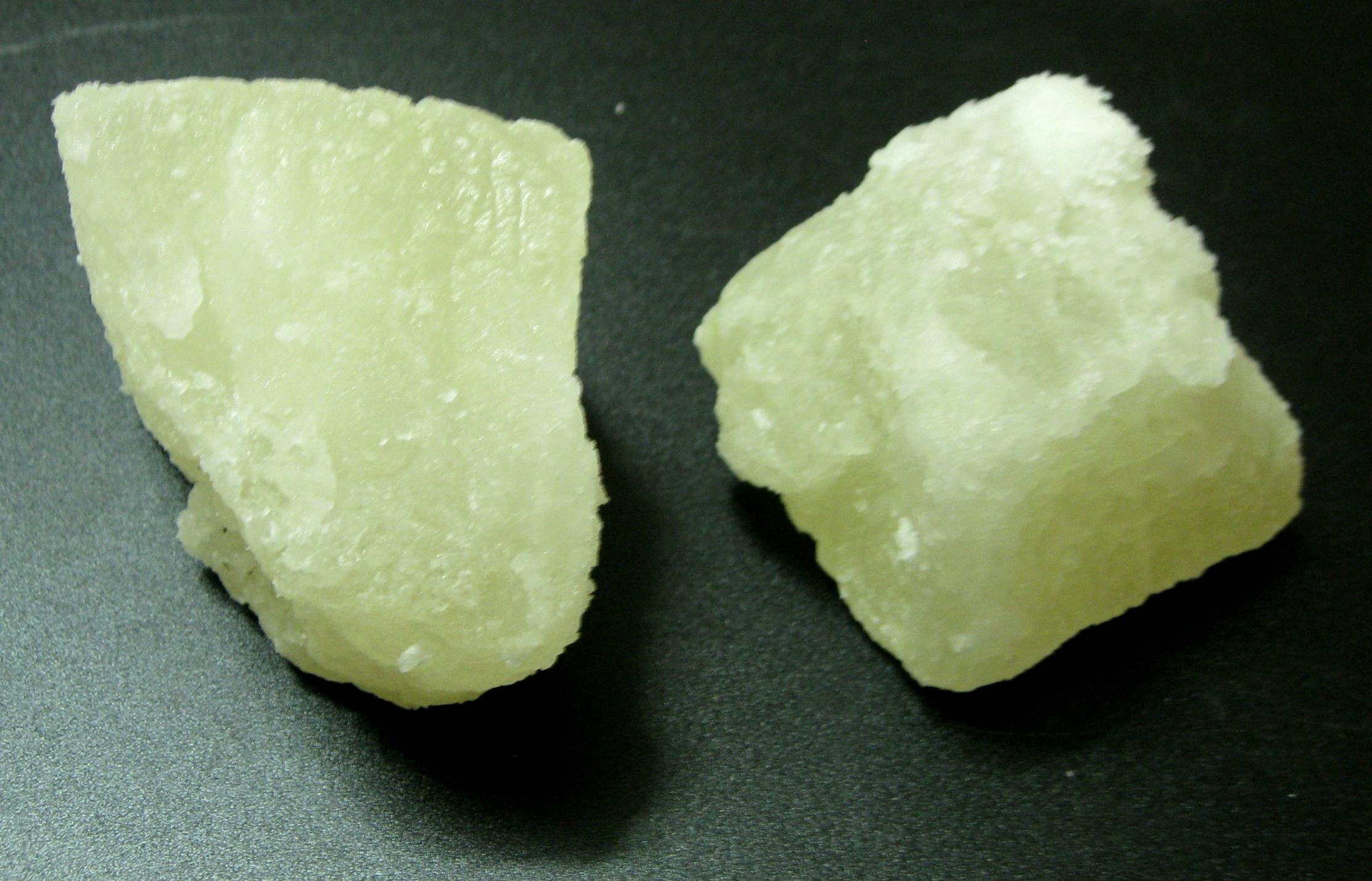 Petha from Agra